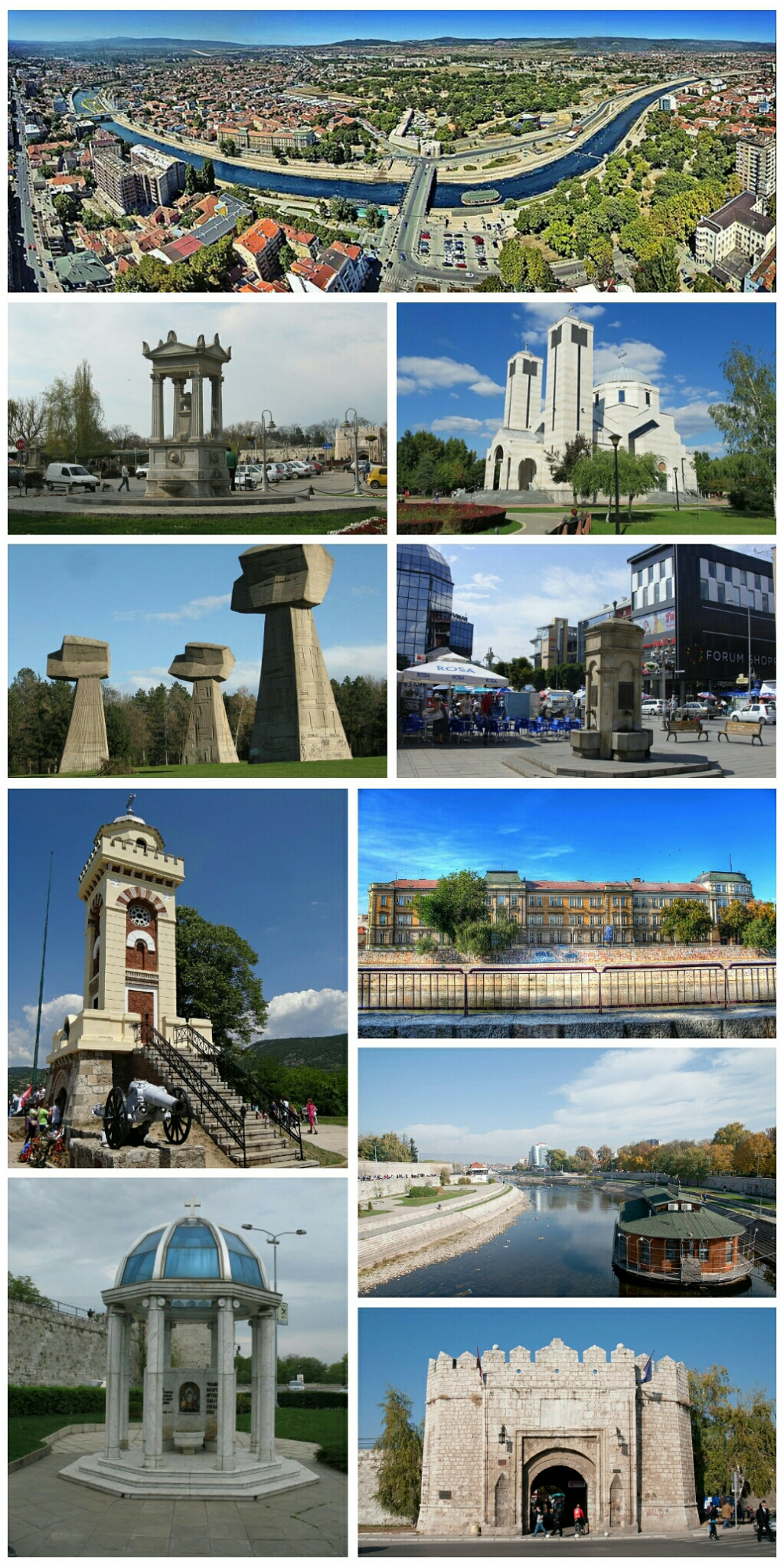 Niš- photomontage (Panoramic view of Niš, Roman fountain in Niš, Church of the Holy Emperor Constantine and Empress Helena, Bubanj Memorial Park, Niš Forum shopping centre, Čegar monument, University of Niš, Nišava river, Memorial Chapel, Niš Fortress)